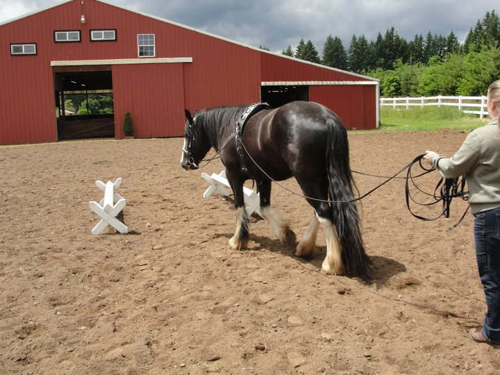 Long lining a draft horse.